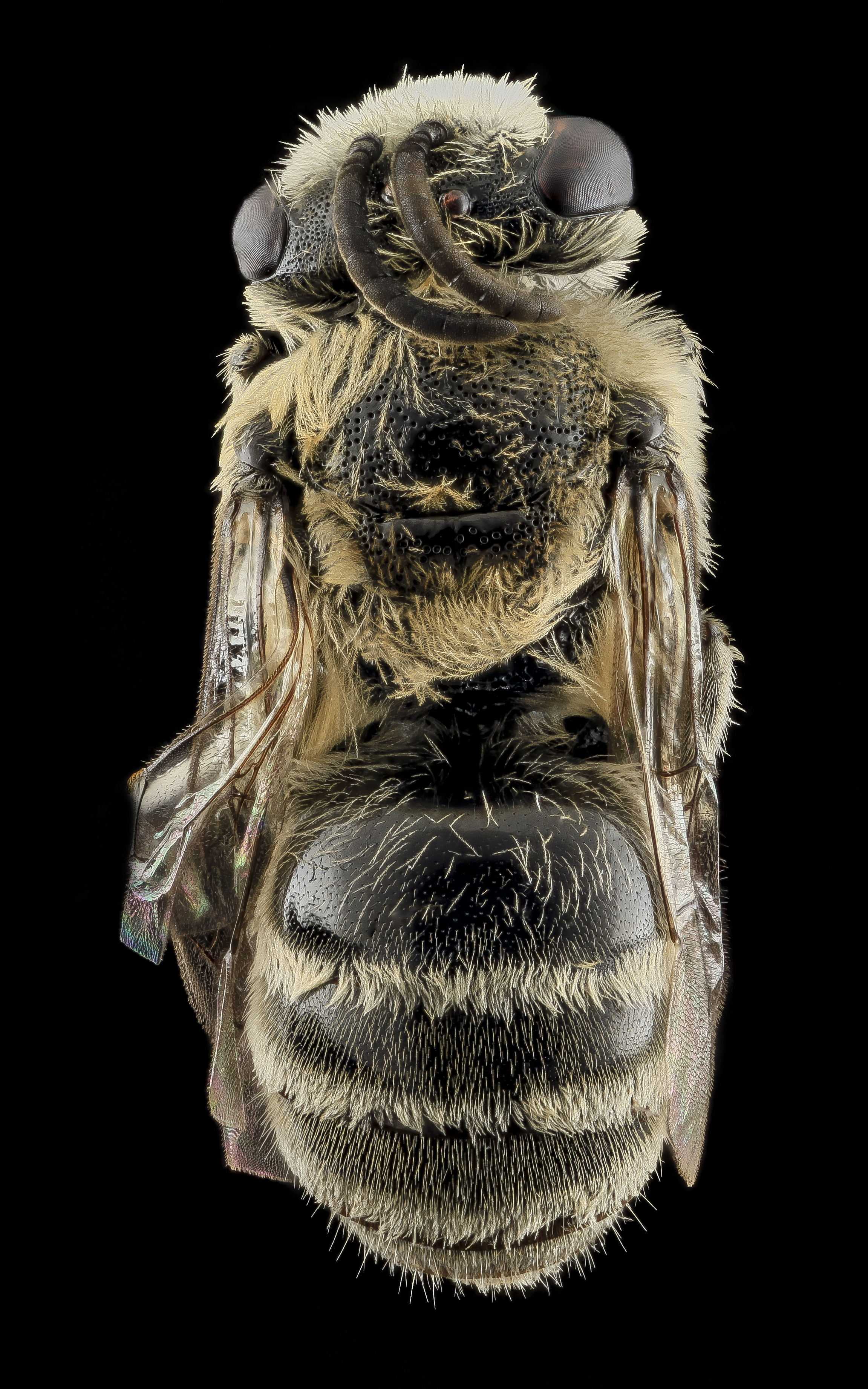 Rarity here. This is species was described in the 1950s, named after the town it was collected near and only a handful of specimens have ever been collected that I am aware of. In fact it is so rare that it was on our list of "missing" species, published in 2011. So it is nice to see this species and, indeed, it was collected at Cape Canaveral National Seashore, whose nearest town is.....Titusville. Picture taken by Wayne Boo Canon Mark II 5D, Zerene Stacker, 65mm Canon MP-E 1-5X macro lens, Twin Macro Flash, F5.0, ISO 100, Shutter Speed 200